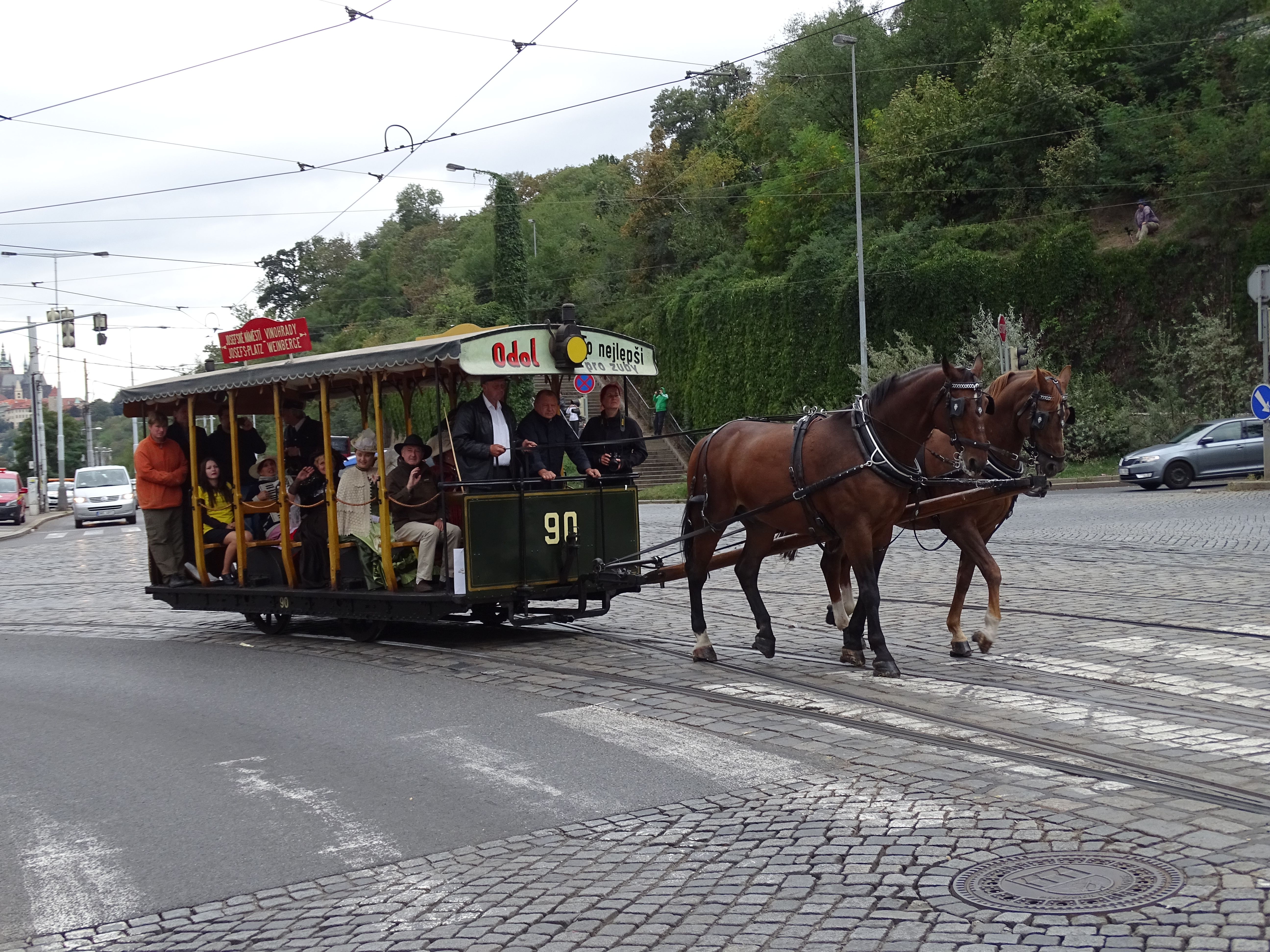 Prague-Holešovice, Czech Republic. Nábřeží Kapitána Jaroše, a tram parade, a car of horse tramway.